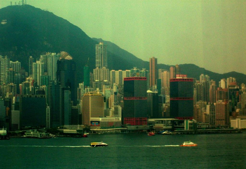 Hong Kong City